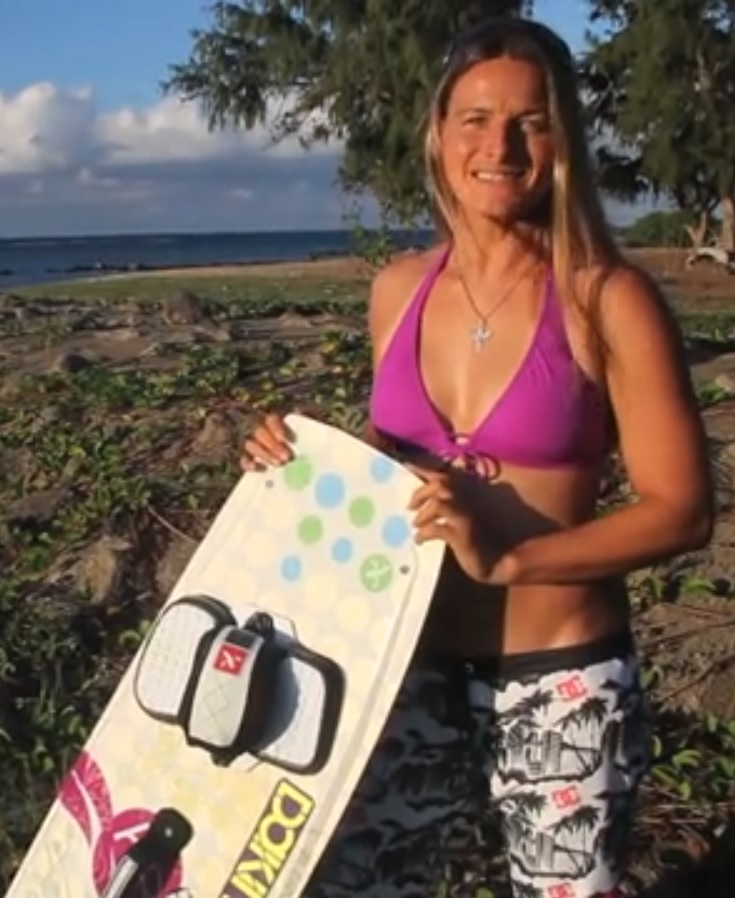 Best Kiteboarding team rider Kristin Boese takes us through the development and characteristics of her 2011 board.